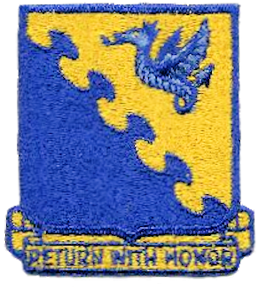 Emblem of the 31st Fighter Wing (1940s)